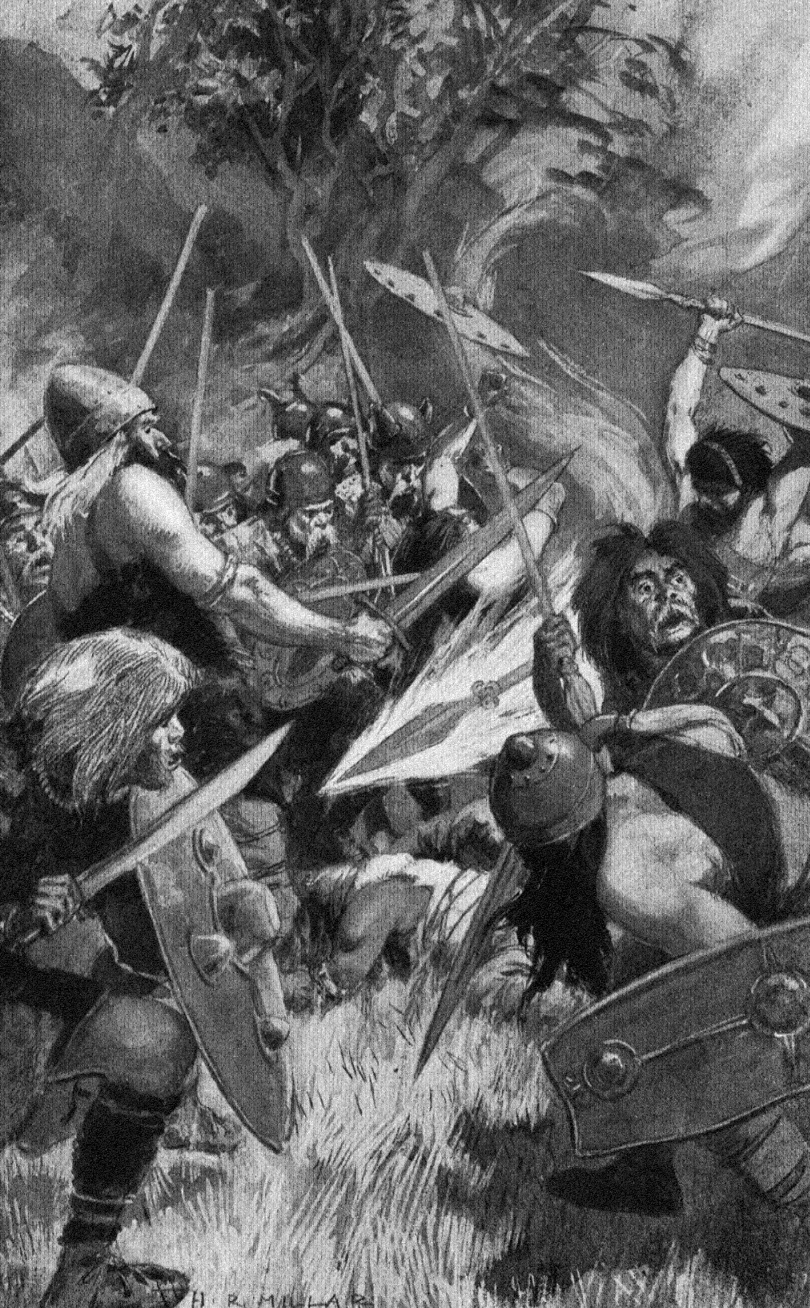 Illustration of Lugh's magic spear by Harold Robert Millar. From: Squire, Charles (n.d.), “Chapter 5: The Gods of the Gaels”, in Celtic Myth And Legend Poetry And Romance, London: Gresham Publishing Company, page 62. Originally published under the title The Mythology of the British Islands, London: Blackie and Son, 1905.